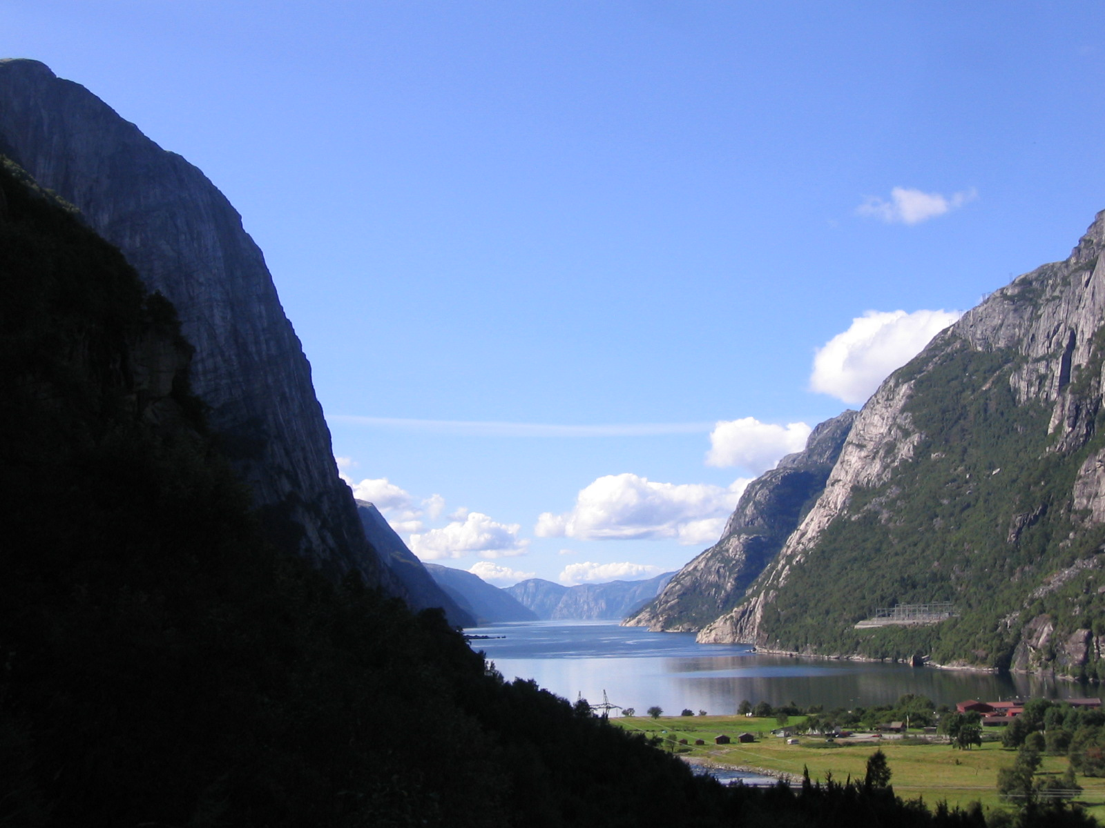 Lysebotn at Lysefjord